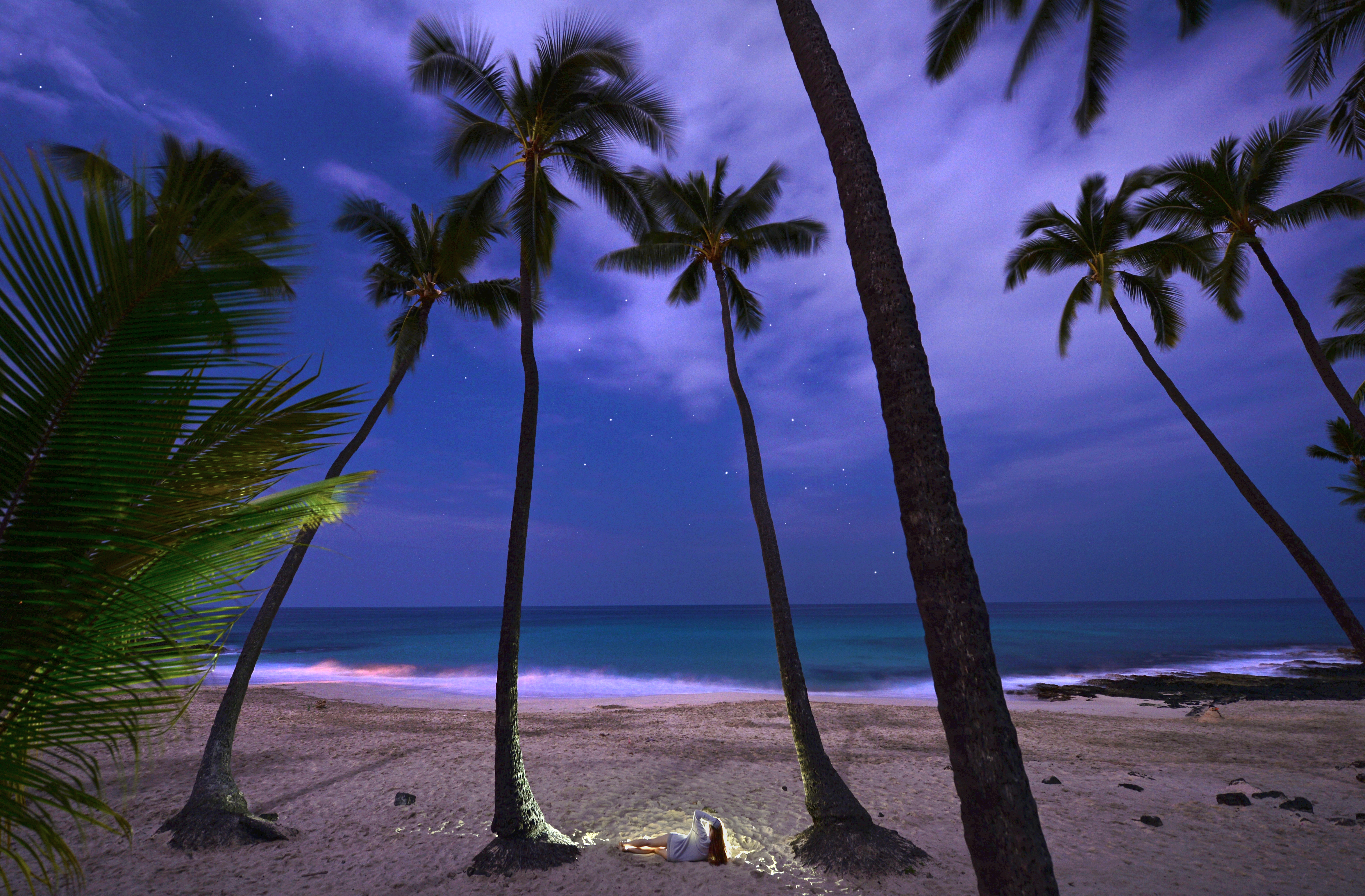 Night time photo of Magic Sands Beach, aka La'aloa Bay, on Christmas, 2015. Attribute to Steven Keys and